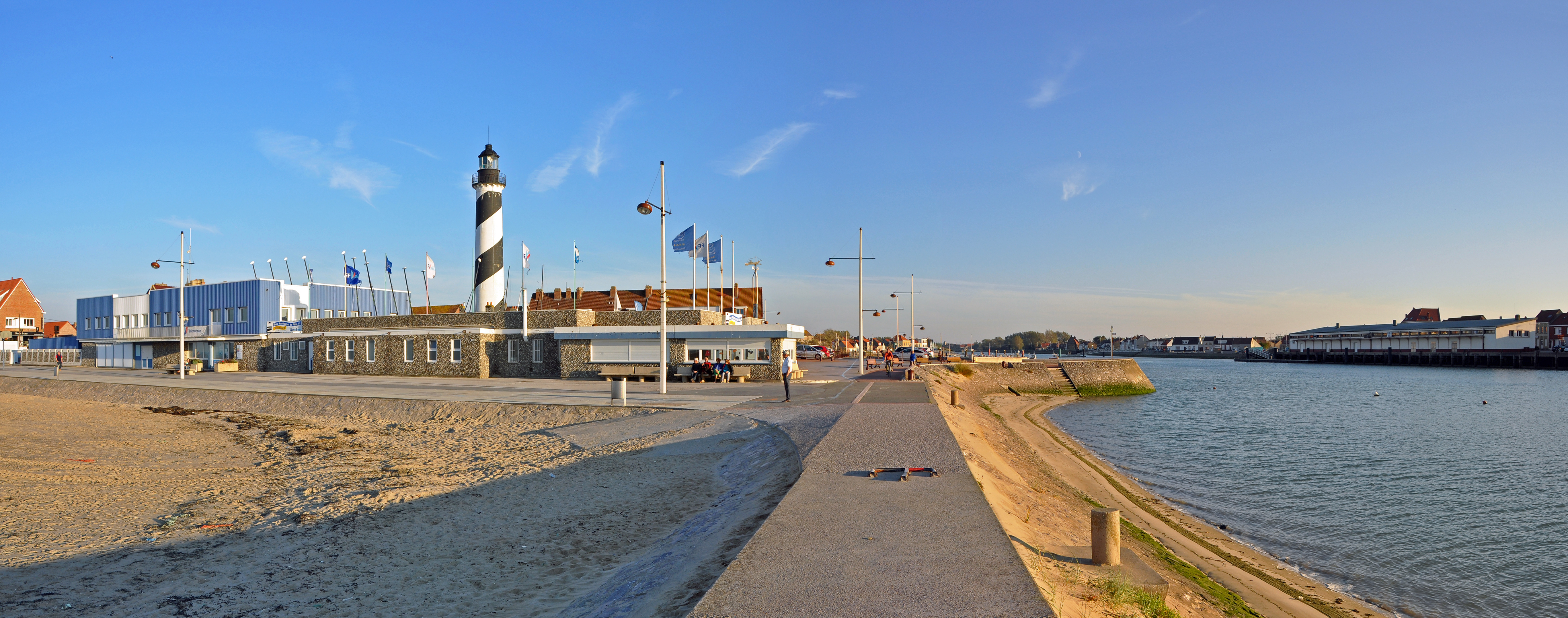 Petit-Fort-Philippe (municipality of Gravelines, Nord department, France): the lighthouse and the Aa river mouth